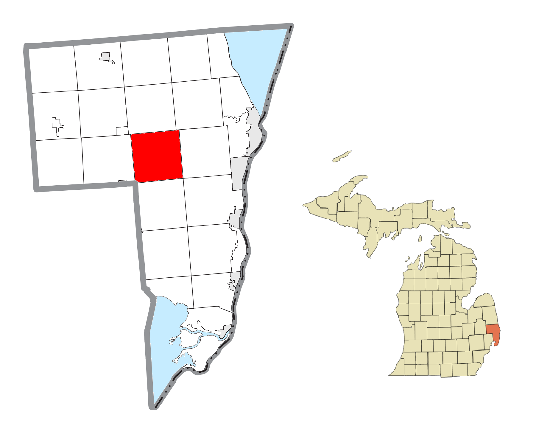 Wales Township, MI